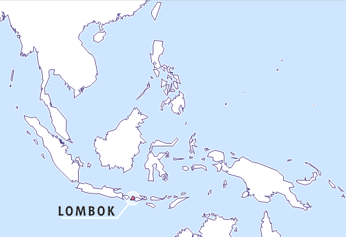 Location of Lombok in Indonesia.